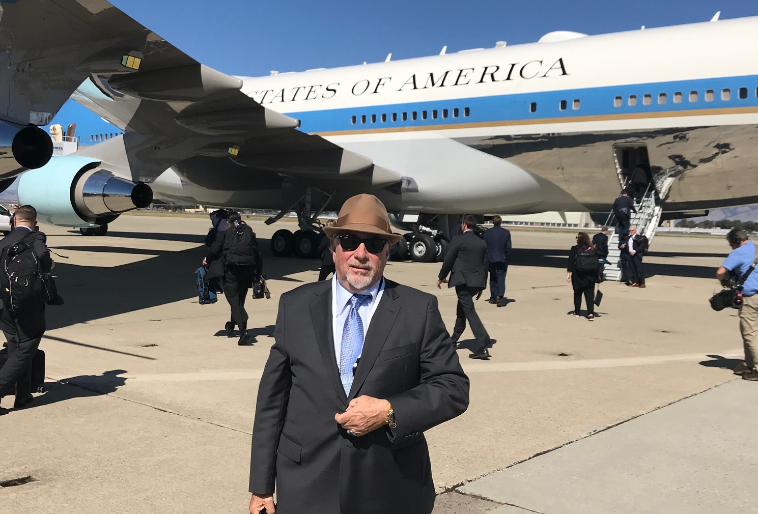 Radio host Michael Savage outside Air Force One on Moffett Federal Airfield in Mountain View, California.